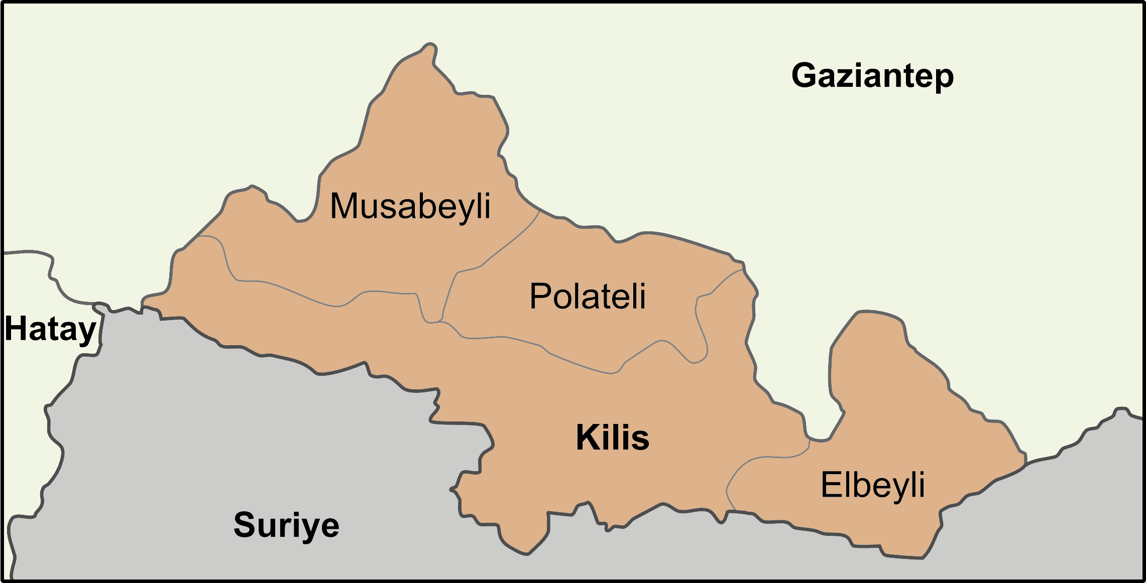 Map of the districts of Kilis Province, Turkey.